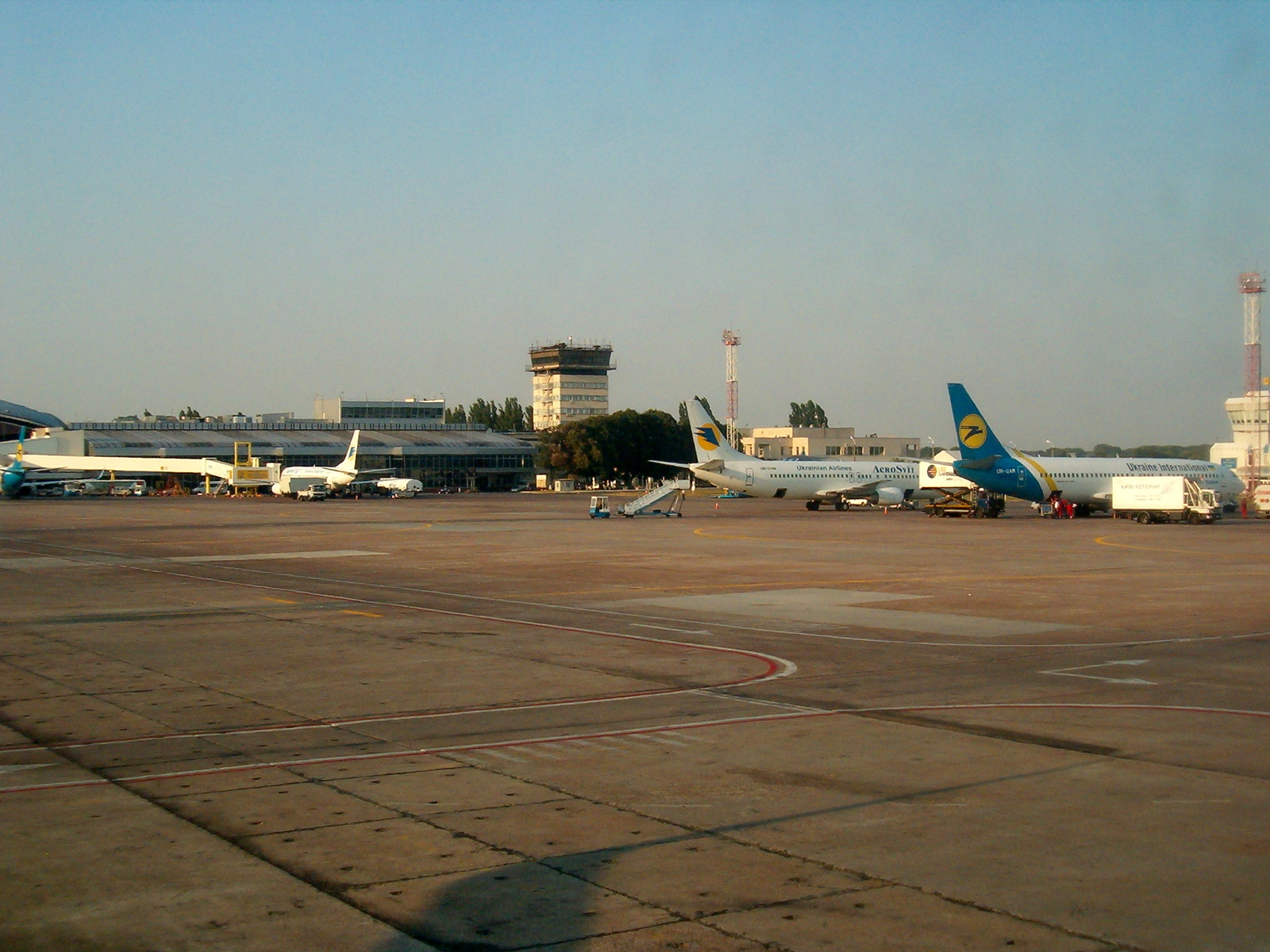 Boryspil International Airport